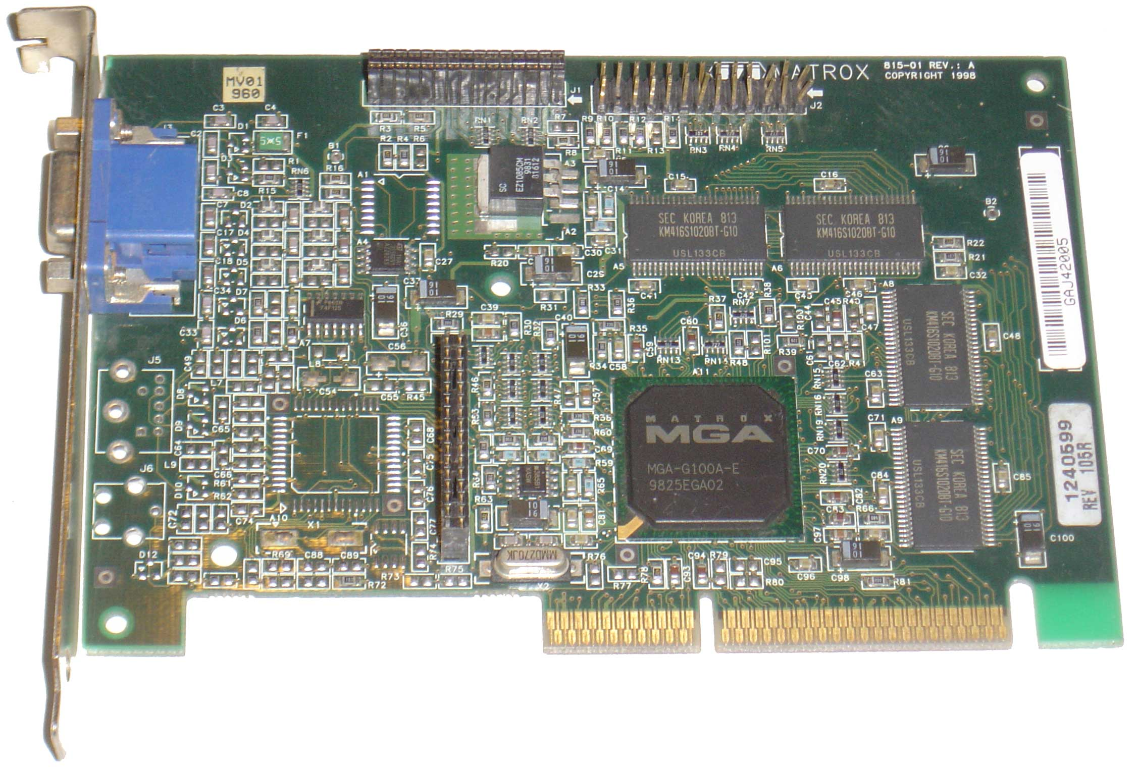 Matrox MGA-G100 Graphic Adapter